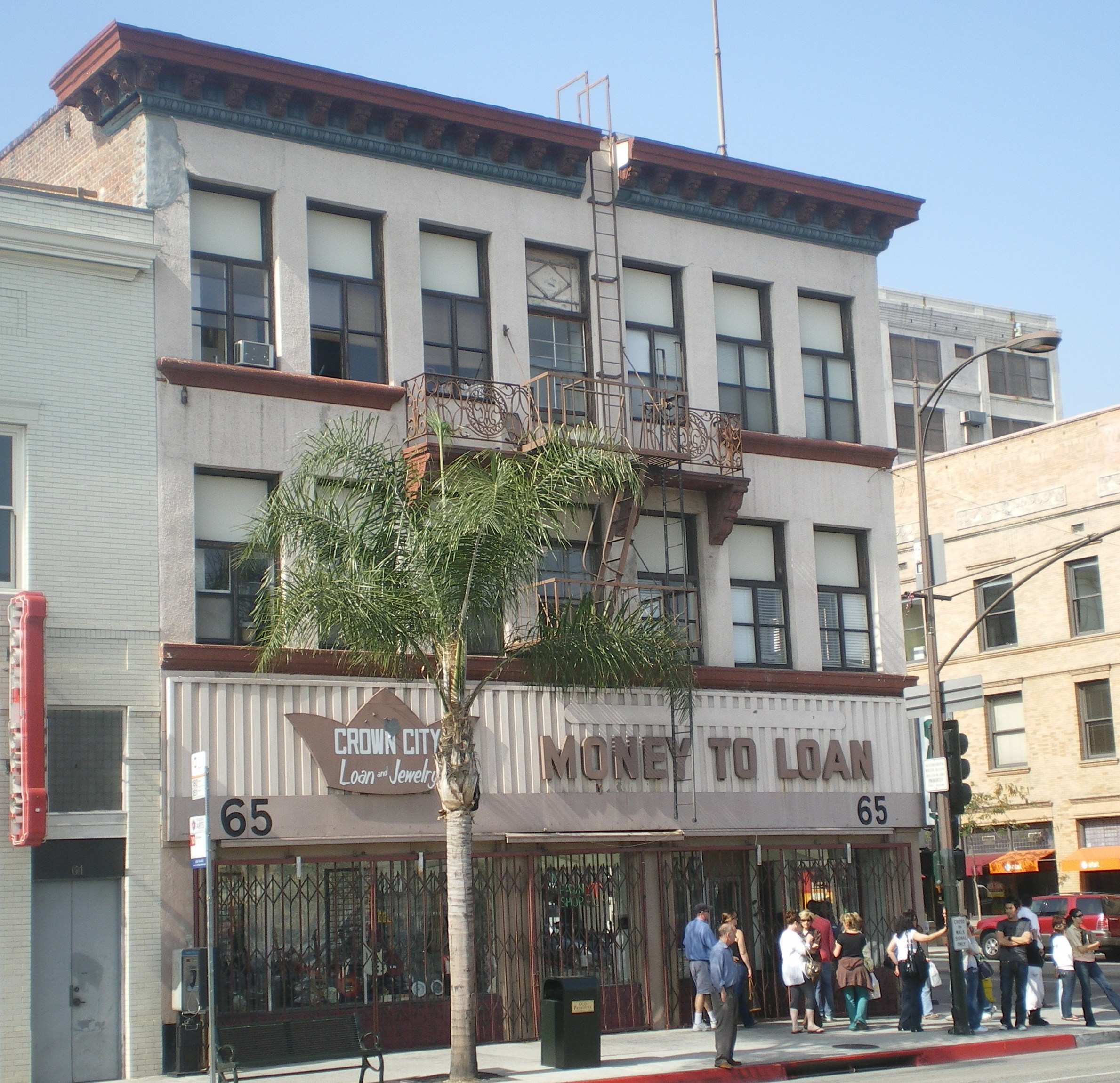 Crown City Loan & Jewelry, Colorado Boulevard, Pasadena, California